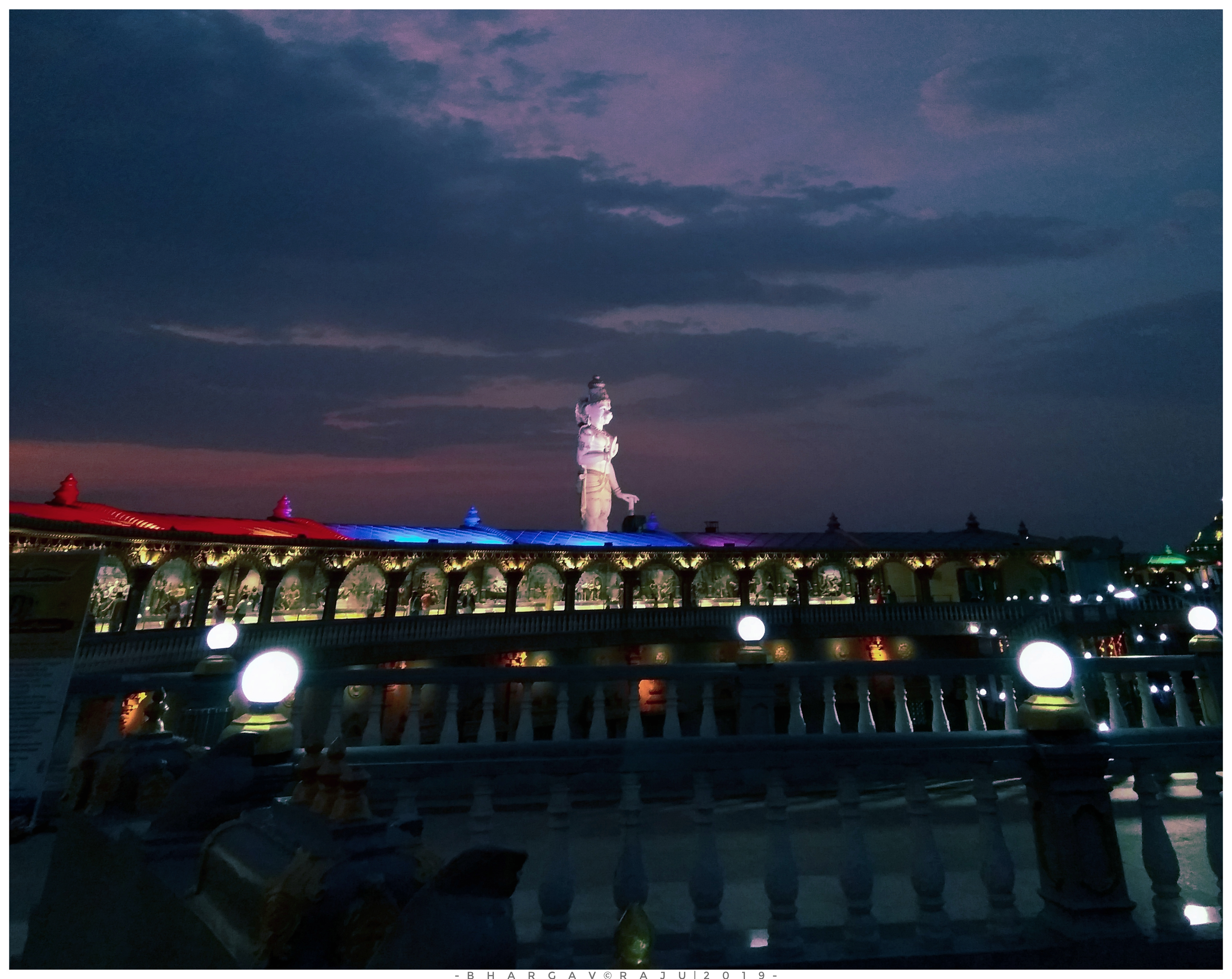 near Vizianagaram